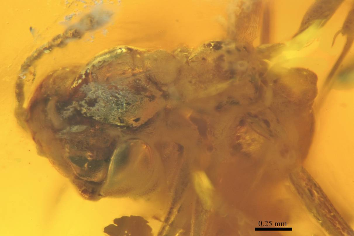 Brownimecia clavata holotype, dorsal view, Fossil in New jersey amber, specimen number AMNH-NJ667